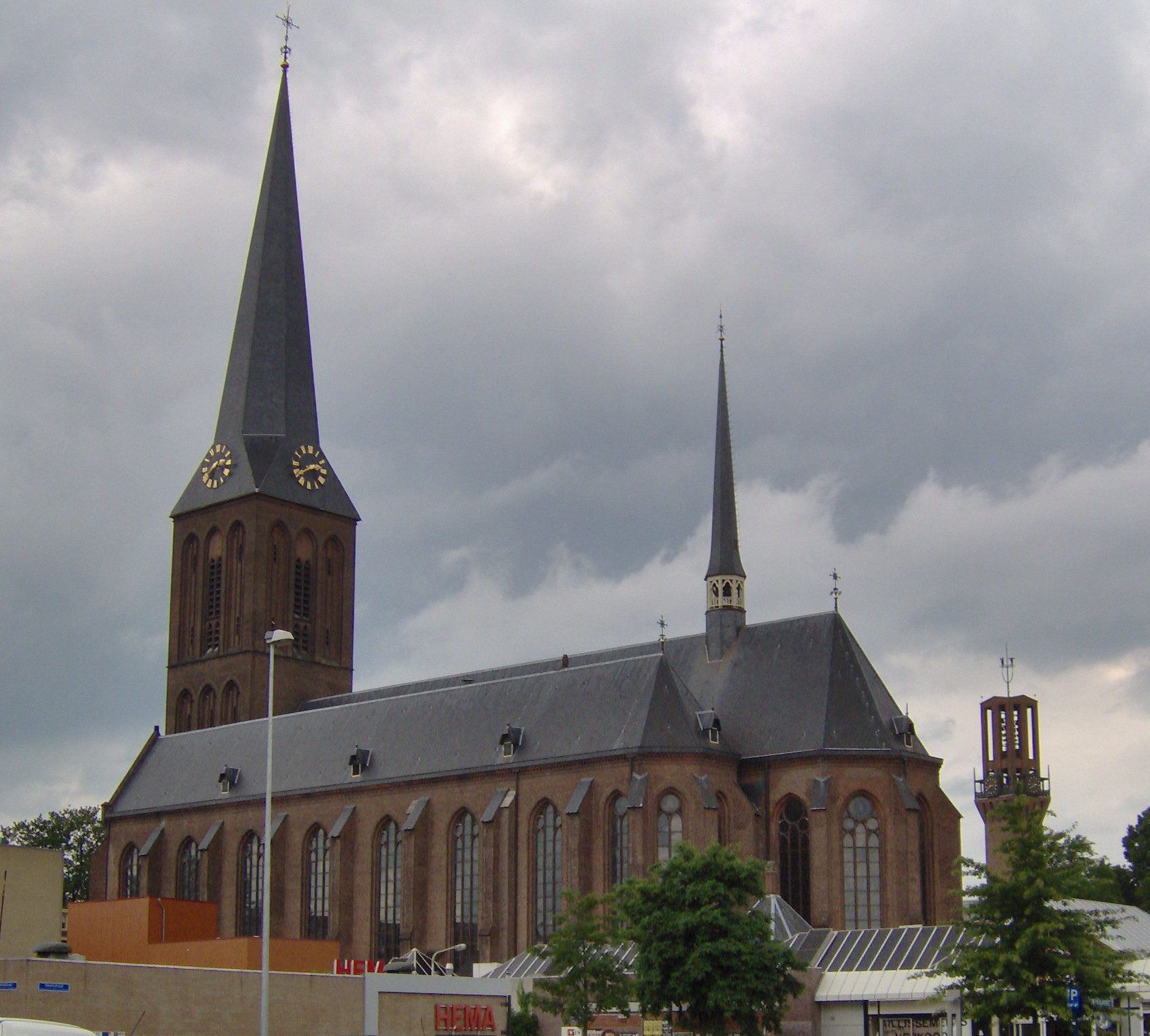 The Lambertusbasiliek (basilica of Saint Lambert) in the city Hengelo, Overijssel, The Netherlands